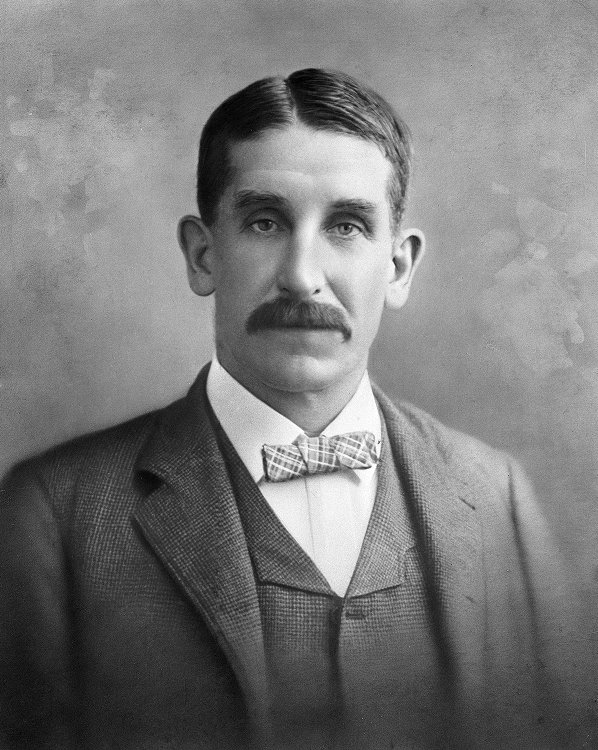 Portrait of former Mayor of Pittsburgh Andrew Fulton